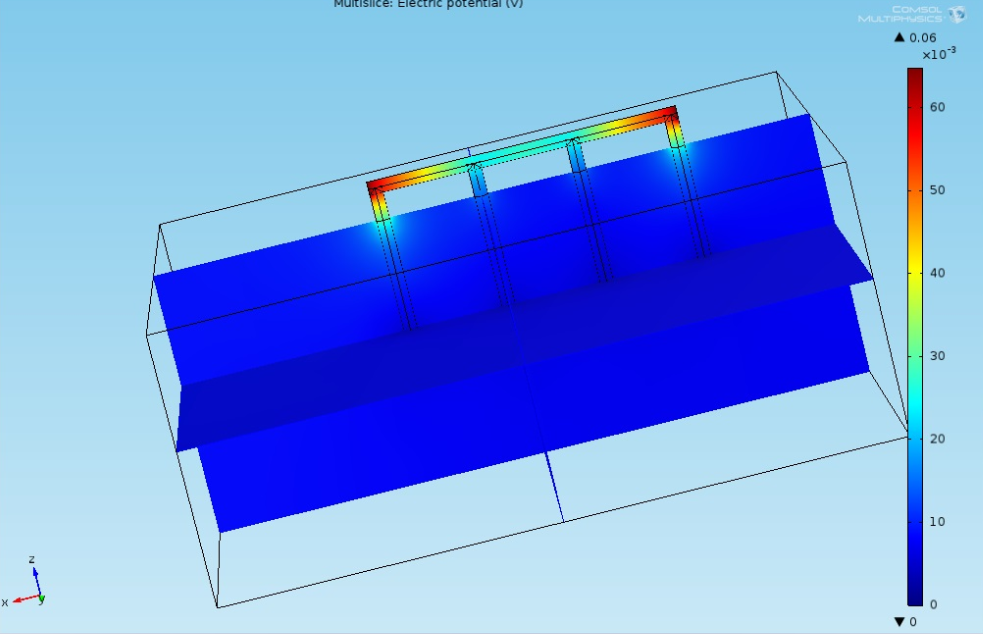 Simulations of the potentials of a grounding rod in Comsol.TU-GO/EF